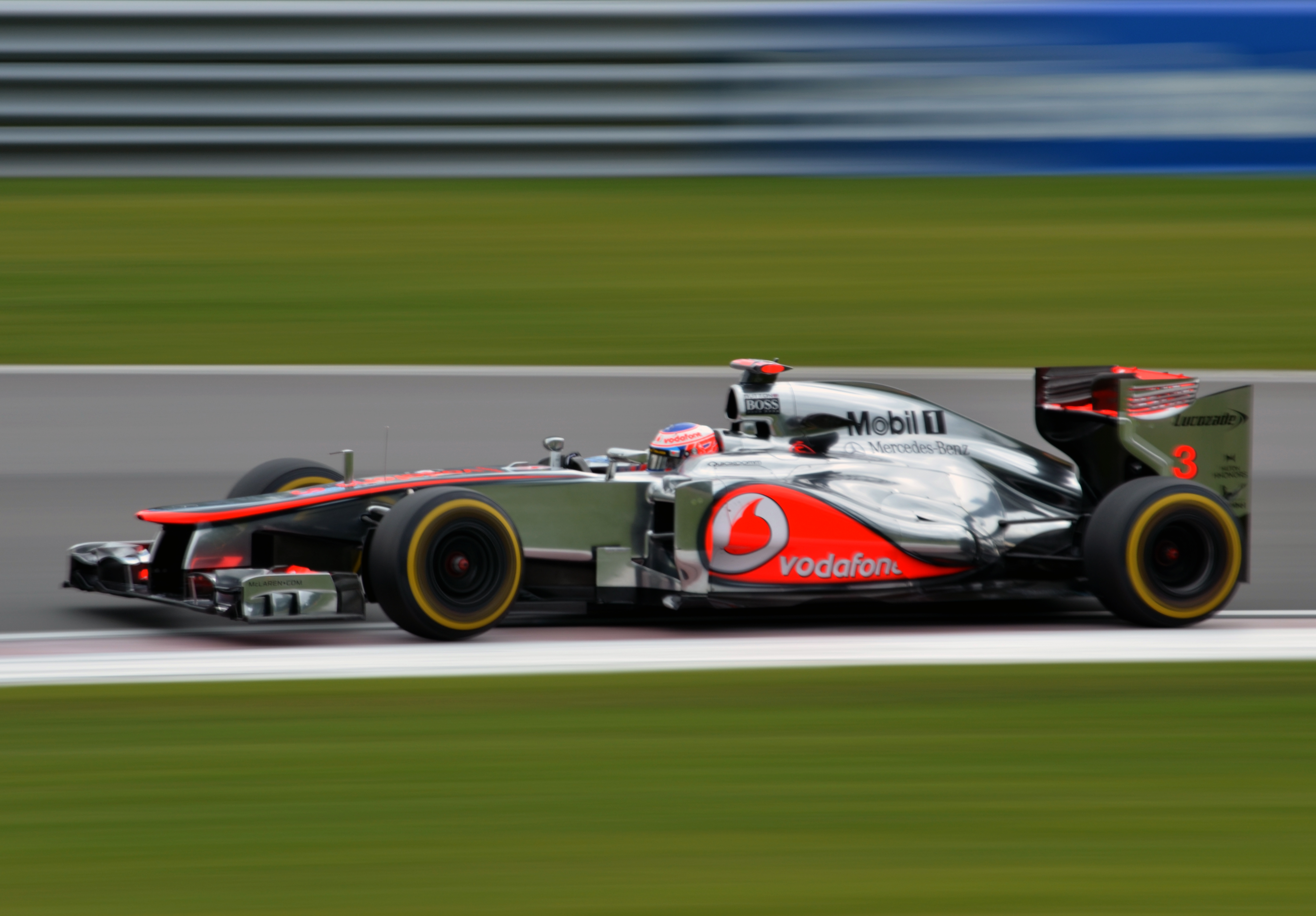 Jenson Button in the McLaren - Mercedes MP4-27 at turn 9 of Circuit Gilles Villeneuve during second practice for the 2012 Canadian Grand Prix.